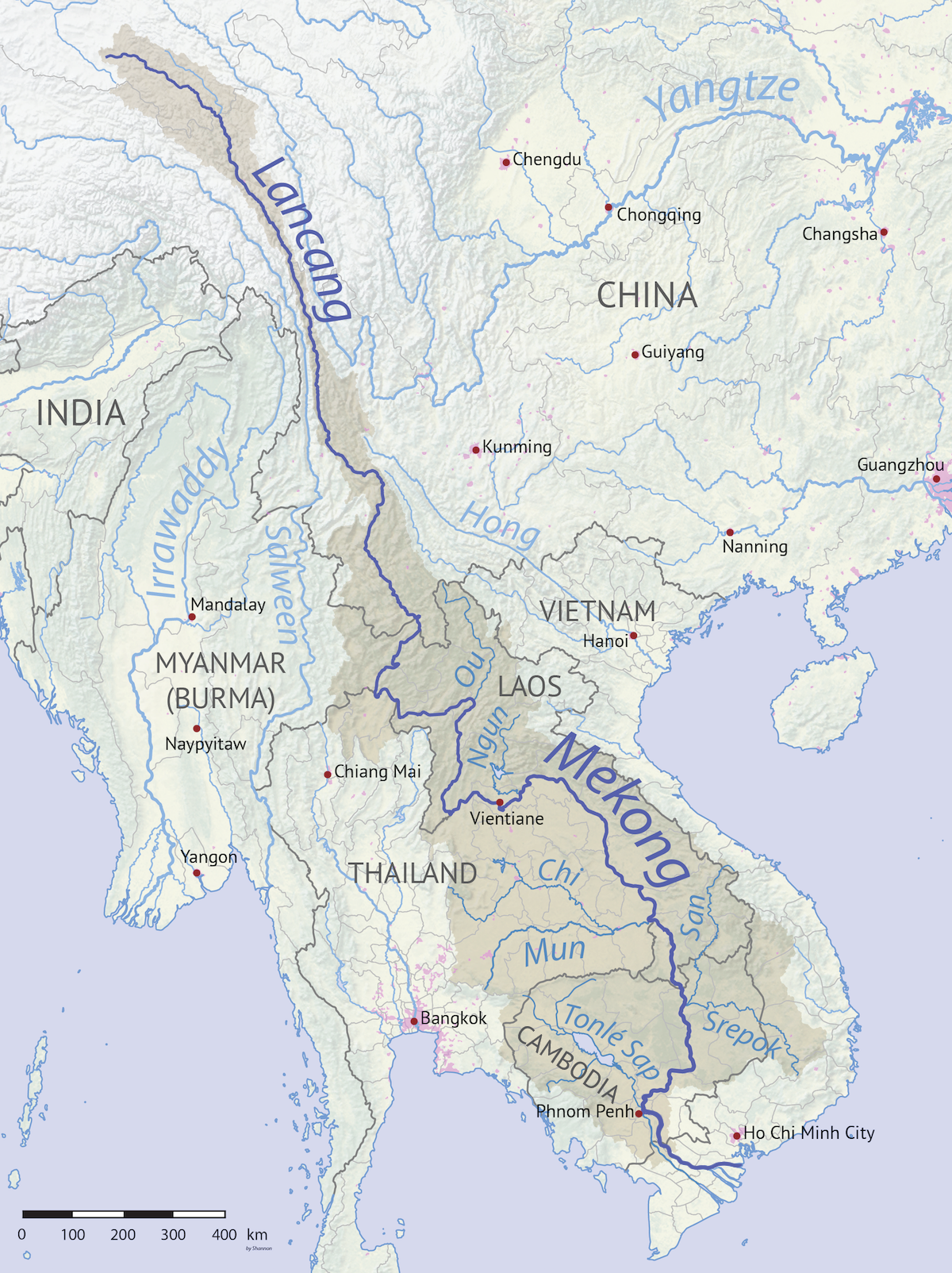 Map of the Mekong river basin. Intended to replace older map here. Made using Natural Earth data.